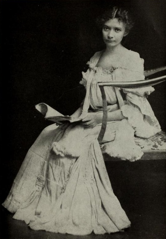 Picture of Mary Johnston